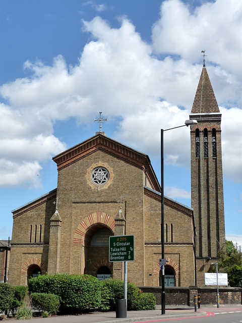 Christ Church, Christchurch Road, Streatham, London SW2. Designed by James W Wild (1814–92) and built 1840–42. The details are simple and clear, arguably prefiguring modernism by almost a century. It is built of stock brick with some polychromy, with a clerestory and a campanile.